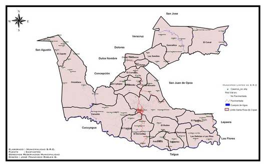 Santa Rosa de Copán, Municipalities